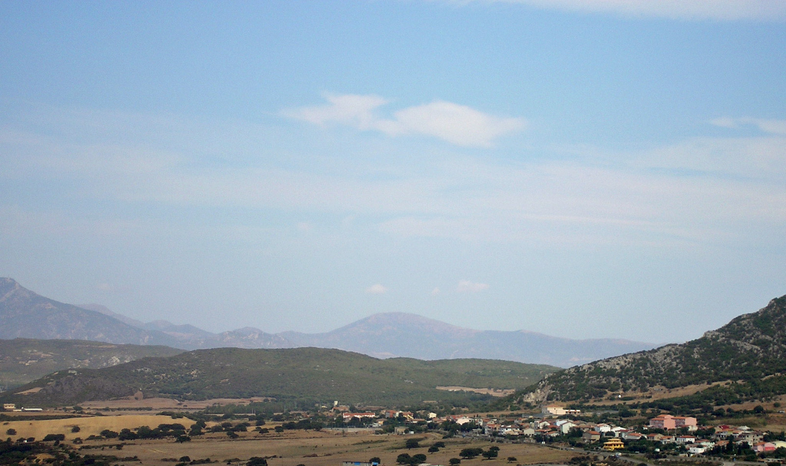 Barbusi, in the suburbs of Carbonia, Sardinia, Italy, seen from Monte Sirai.